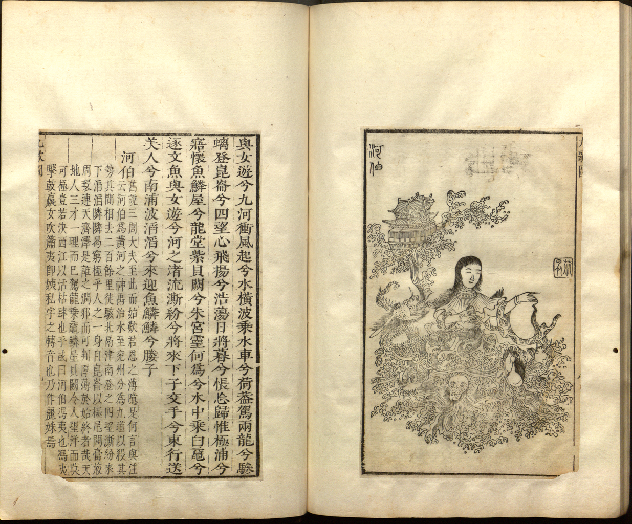 "The River Earl" (He Bo), from Nine Songs section, poem number 8 of 11, of annotated version of Chu Ci, published under title Li sao, author attribution as Qu Yuan (actual authors of the Nine Songs section unknown), and with illustrations by Xiao Yuncong.